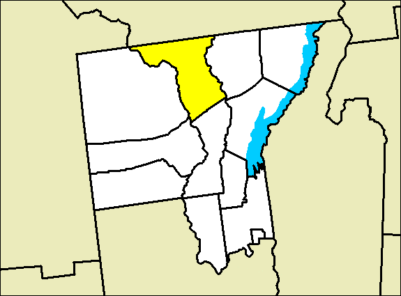 Map of Warren County, New York with town of Chester highlighted.